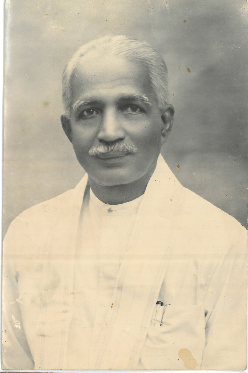 Portrait of Dr. C.W.W.Kannangara